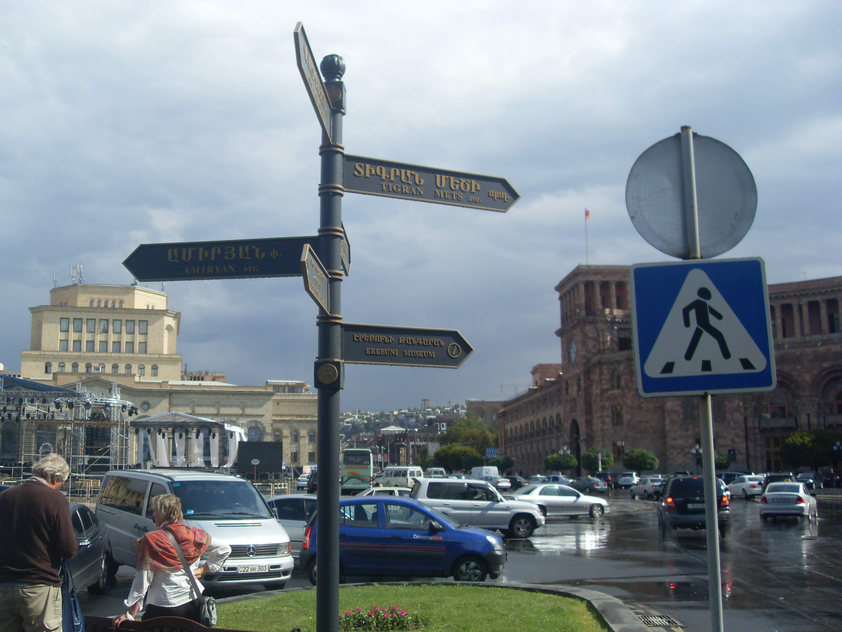 Republic square of Yerevan, 1926-1977, archit. A. Tamanyan, S. Safaryan, M. Grigoryan, G. Tamanyan, V. Arevshatyan, E Sarapyan, L. Vardanov, N. Paremuzova, sculptor S. Merkurov 6/96